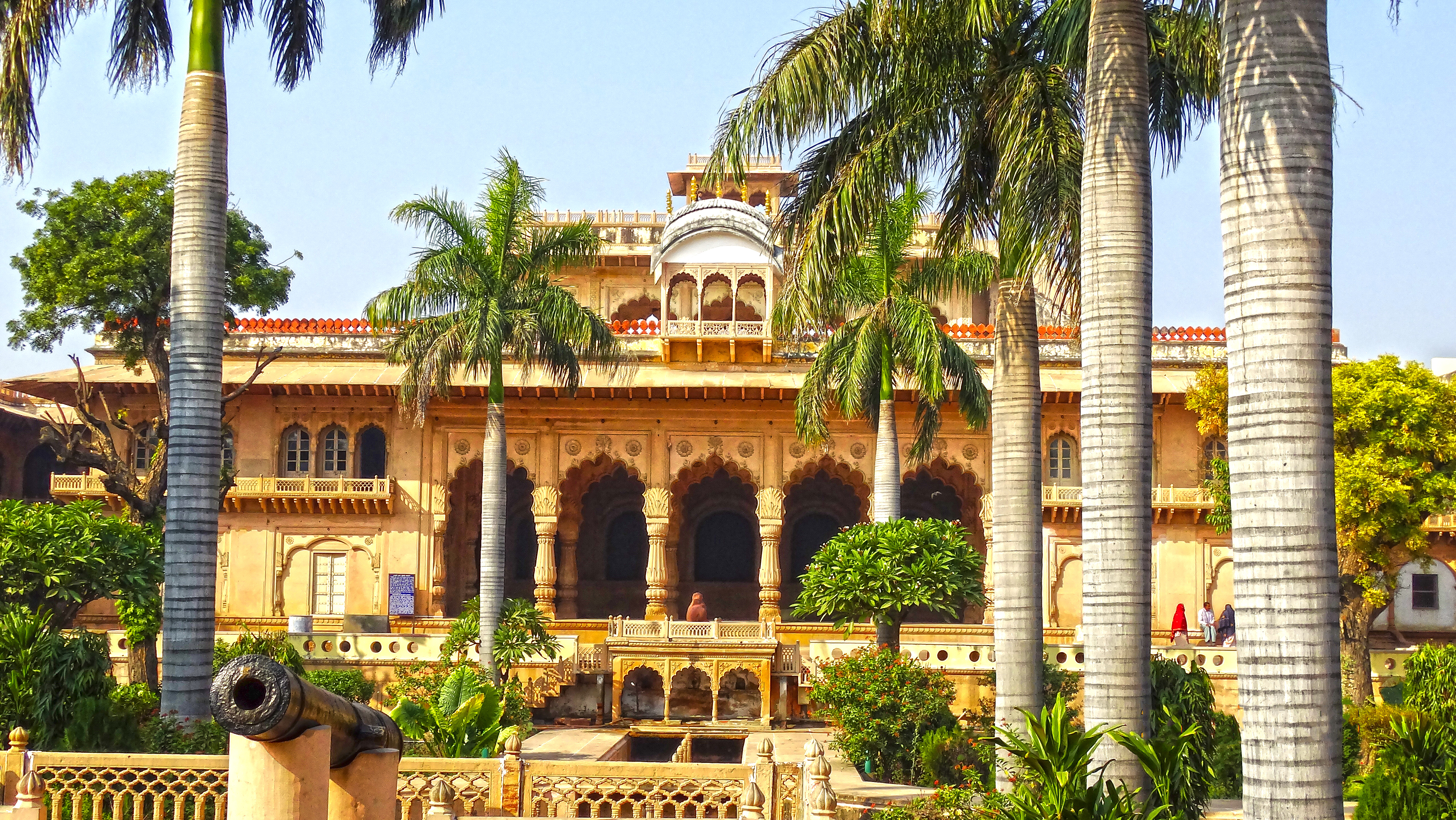 A front view of the Bharatpur Palaceঅসমীয়া: ভৰতপুৰ ৰাজপ্ৰসাদৰ সমুখভাগ